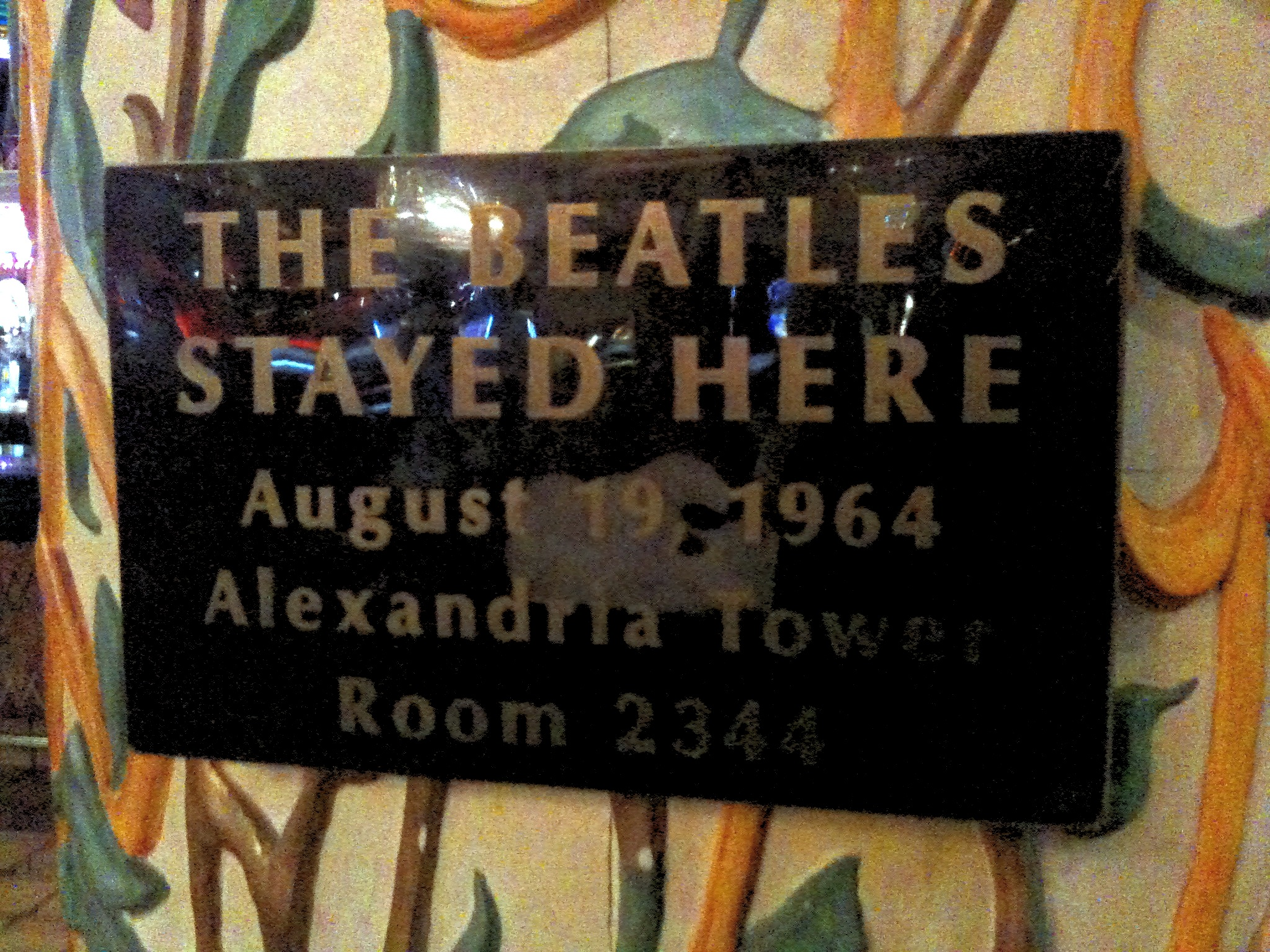 The Beatles Stayed Here August 19 1964 Alexandria Tower Room 2344